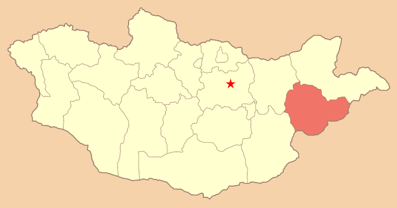 Map of Mongolia with Sukhbaatar Aimag highlighted.